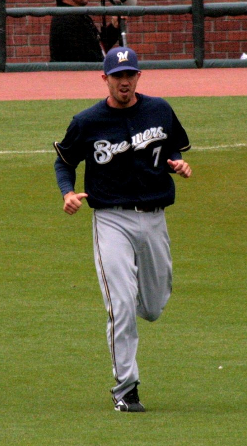 J. J. Hardy